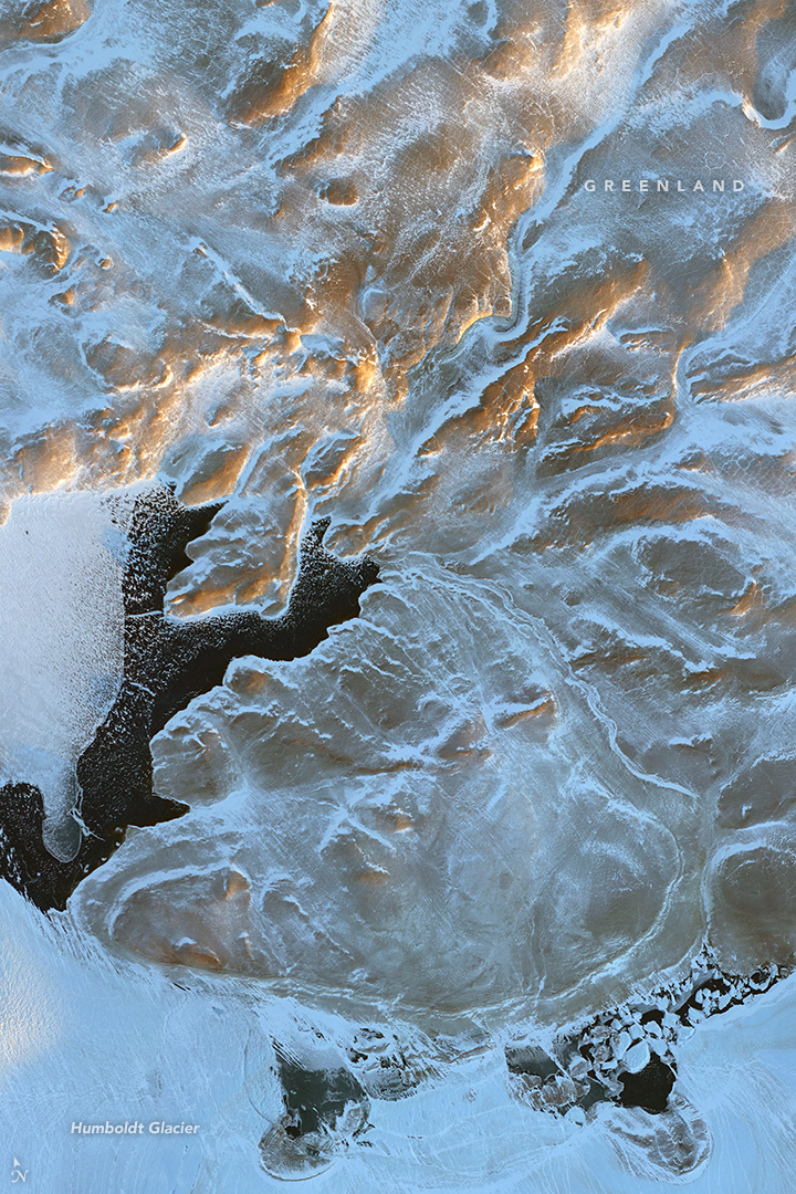 Not all parts of Greenland are entirely covered with ice. Read more at